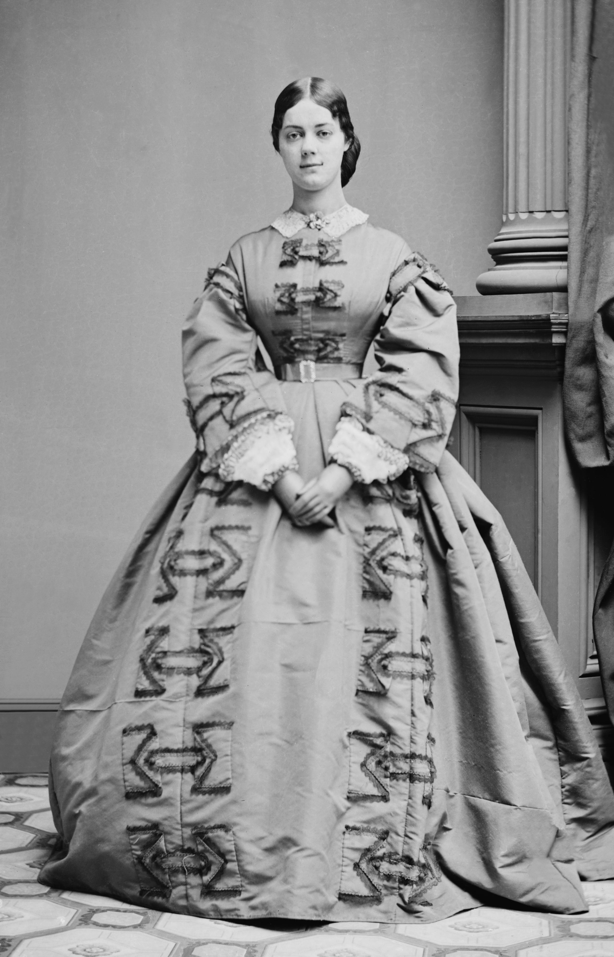 Kate Chase. Library of Congress description: "Kate Chase Sprague"